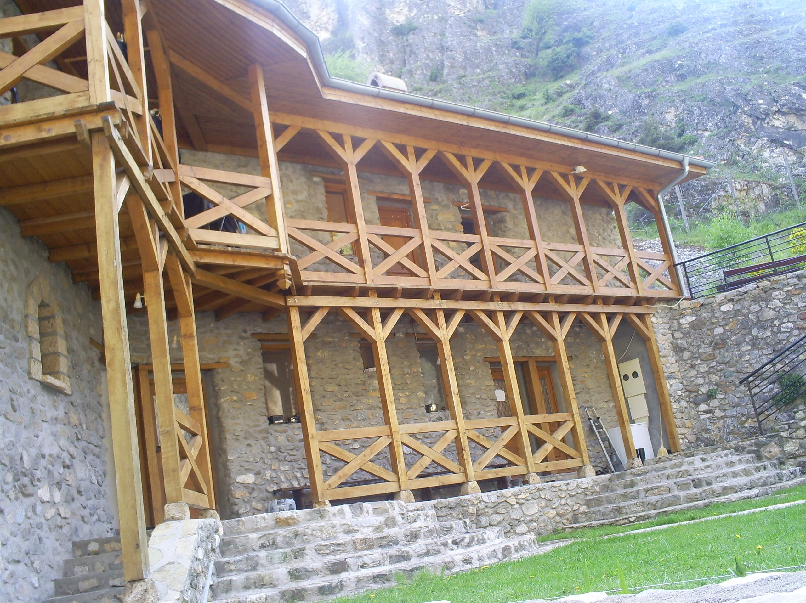 New Konak in Sveti Arhangeli near Prizren, Serbia.